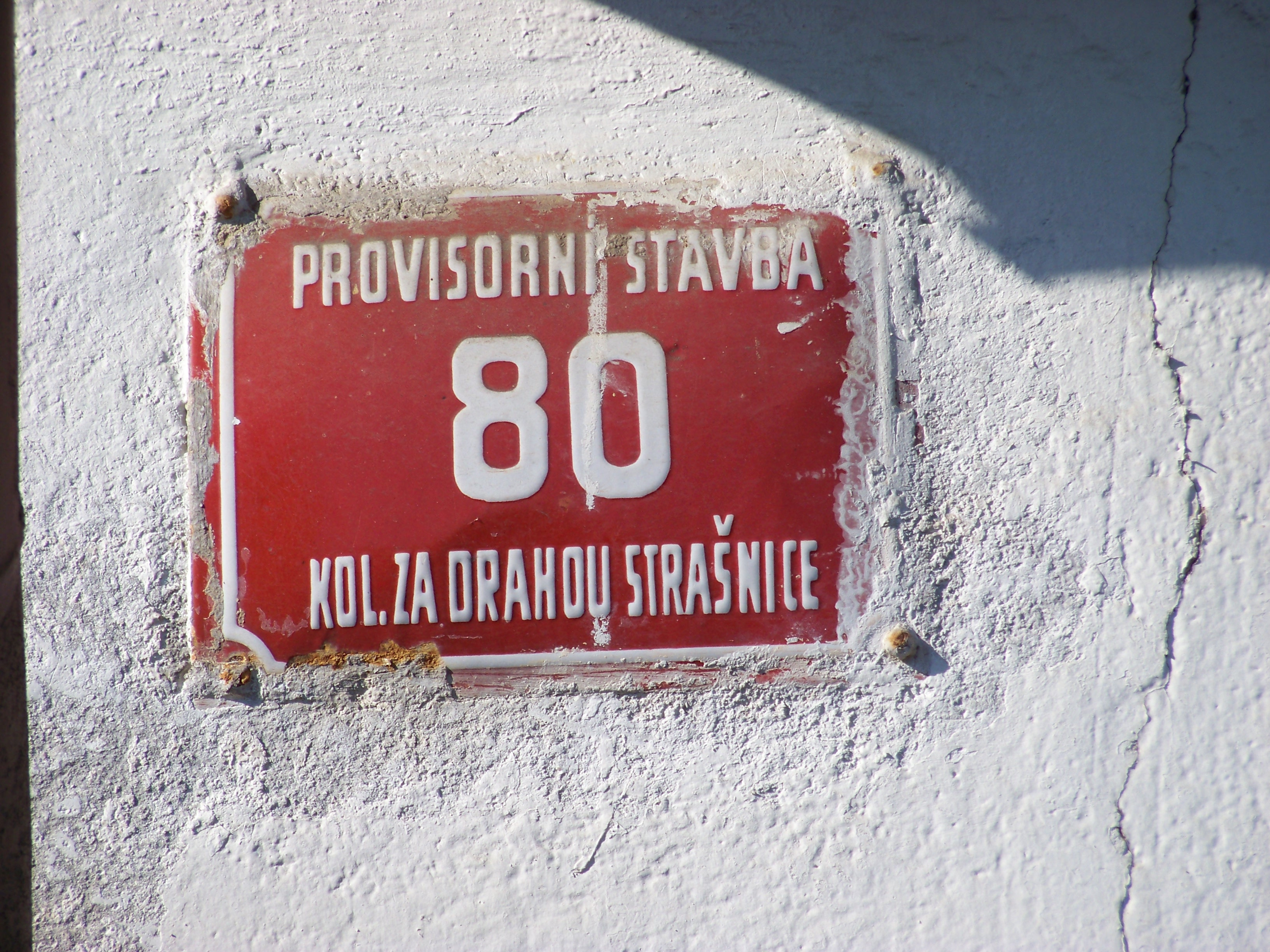 Prague-Strašnice. Kolonie za dráhou, K háječku E80 (3364/15).